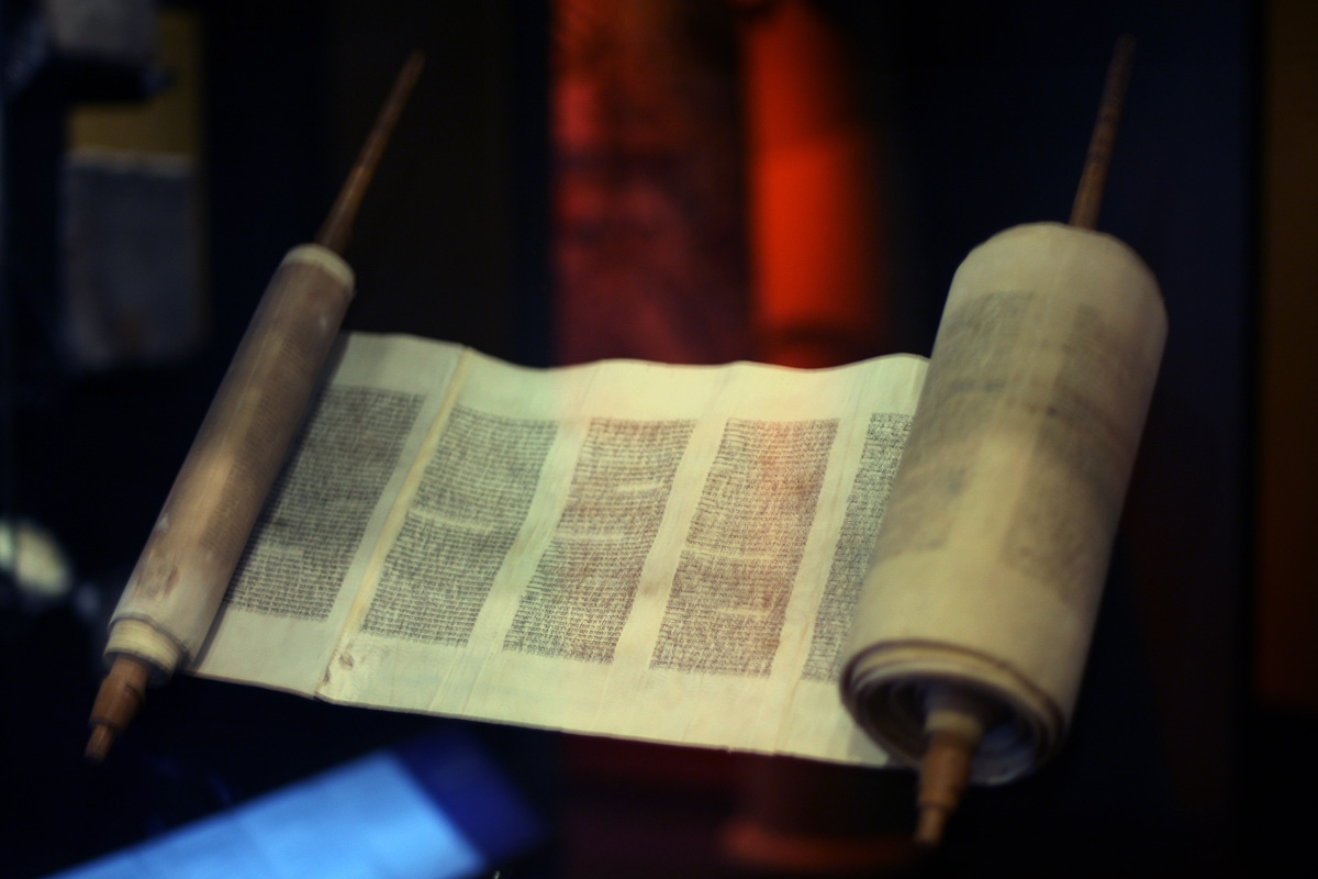 Torah Scroll Ioánnina, Greece, mid-late 19th century Ink on parchment; wood 15 3/4 x 9 1/2 x 3 in. (40 x 24.1 x 7.6 cm) The Jewish Museum, New York Gift of Leon and Selma Cohen in memory of Morris and Mollie Cohen, 1990-190a Wikipedia Loves Art at the Jewish Museum (New York City) This photo of item # 1990-190 at the Jewish Museum (New York City) was contributed under the team name "shooting_brooklyn" as part of the Wikipedia Loves Art project in February 2009. Jewish Museum (New York City) The original photograph on Flickr was taken by shooting brooklyn—please add a comment to the original Flickr page whenever a use has been made on Wikipedia or another project. Project galleries on Flickr: this institution, this team